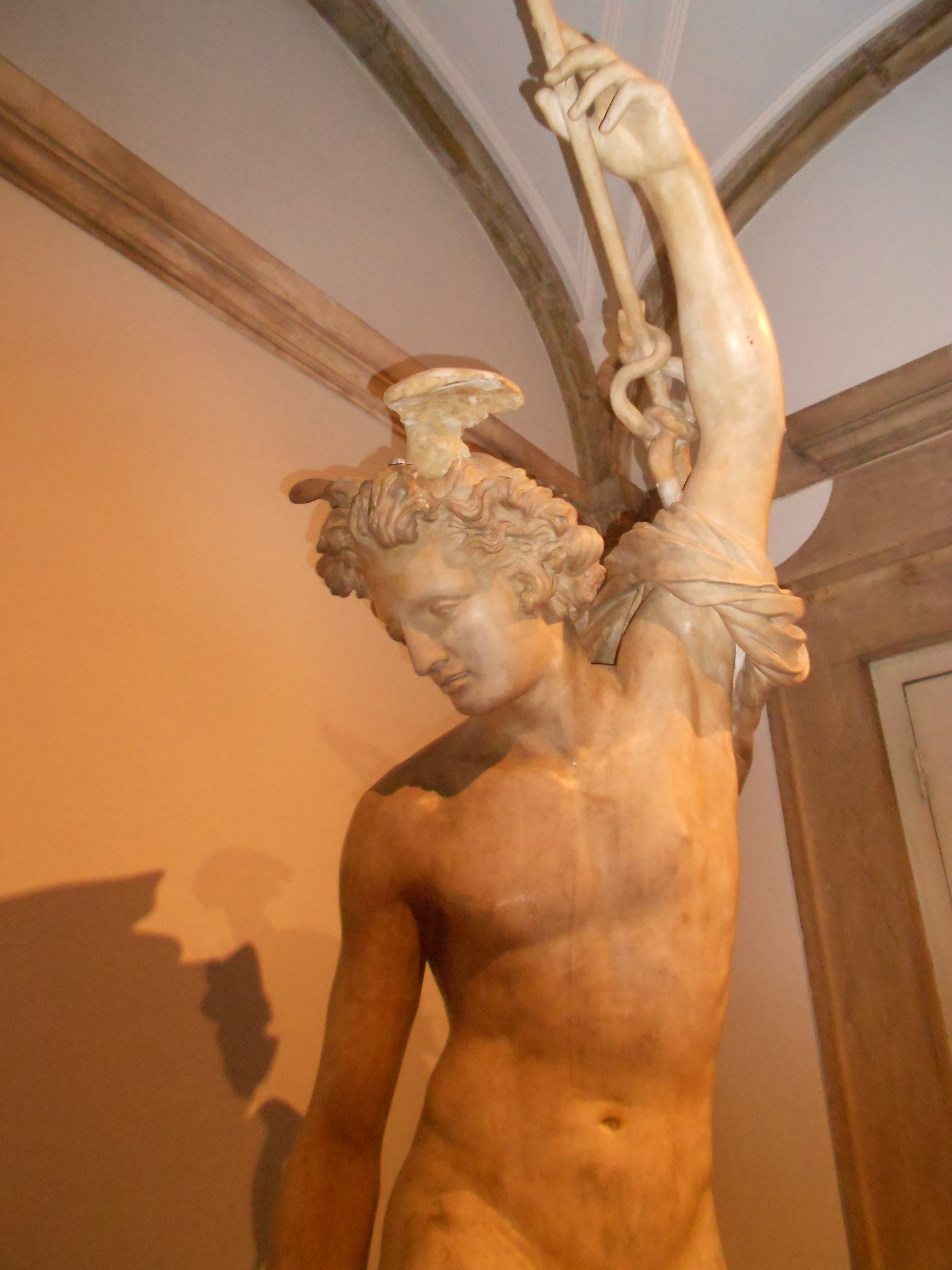 Hermes statue that tops the staircase in the Palace of Santos. The palace houses the French Embassy in Lisbon, Portugal.